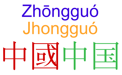 The word China in Traditional (red) and Simplified Chinese script (green). Hanyu (blue) and Tongyong Pinyin (orange) are also presented.